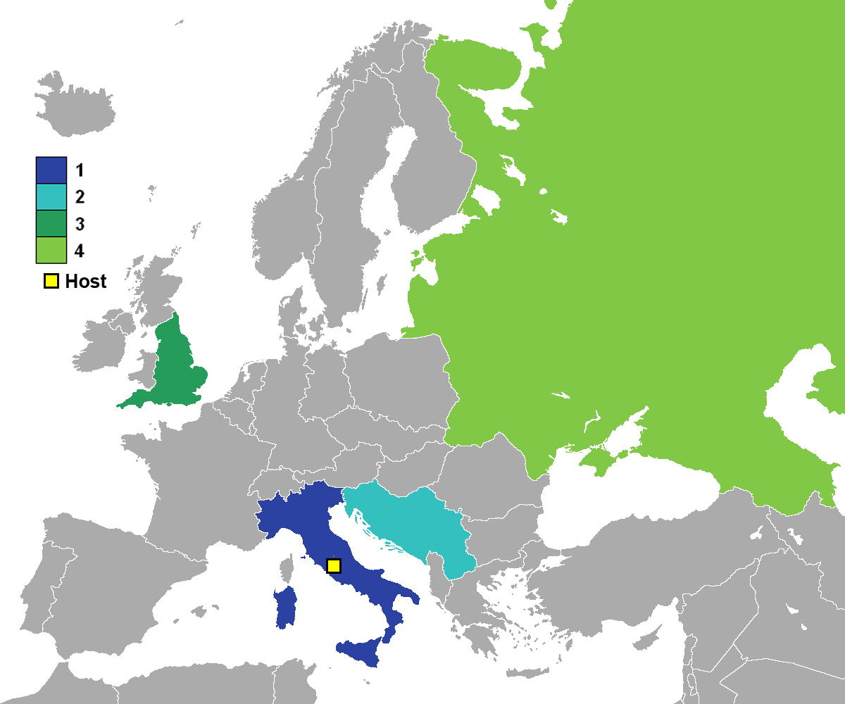 UEFA European Football Championship 1968 final team ranking, showing: Winner (dark blue) Runner-up (light blue) 3rd (dark green) 4th (light green) Yellow square is host nation (Italy).